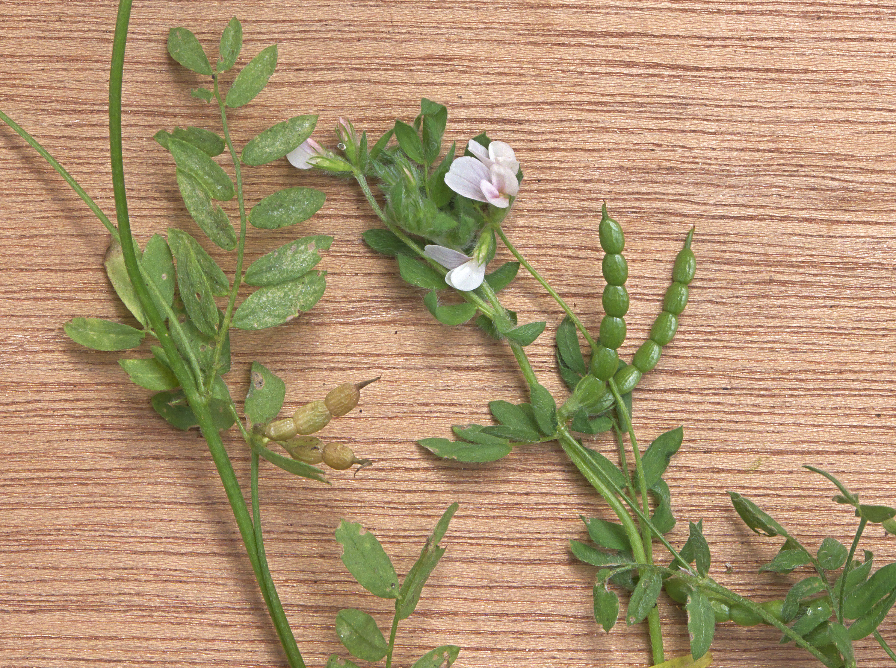 Ornithopus sativus flowers, seedpods and leaf, serradelle bloemen, peulen en blad